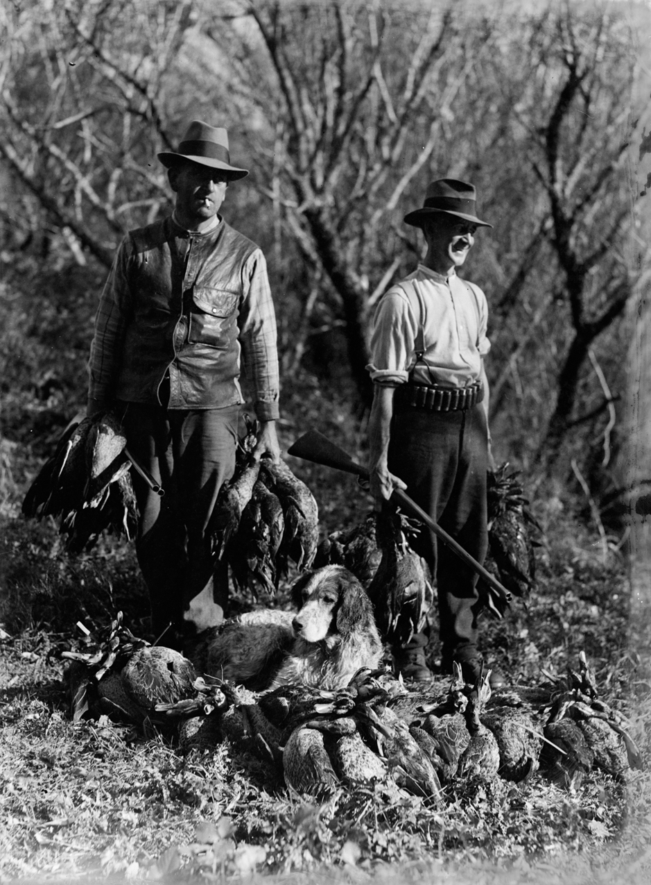 Portrait of two men each holding bunches of dead game birds, and a shotgun. There is a dog lying on the grass in front of the men, surrounded with dead game. The man standing on the right-hand side of the image, is wearing a bullet belt, around his waist. Trees are in the background.